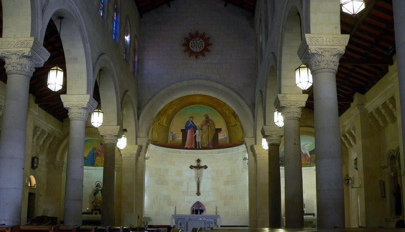 Religion in Israel